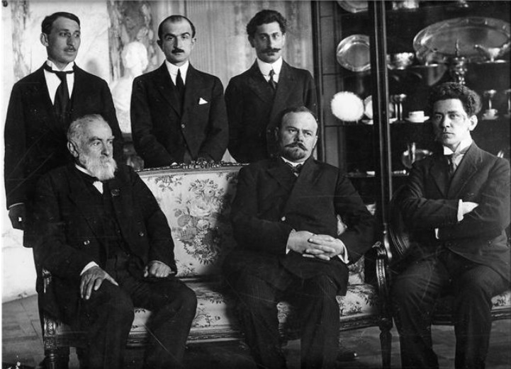 Members of the Georgian diplomatic delegation in Berlin, 1918. Standing from left:Spiridon Kedia, Giorgi Machabeli, and Mikheil Tsereteli. Seated from left: Niko Nikoladze, AkakiChkhenkeli, and Zurab Avalishvili